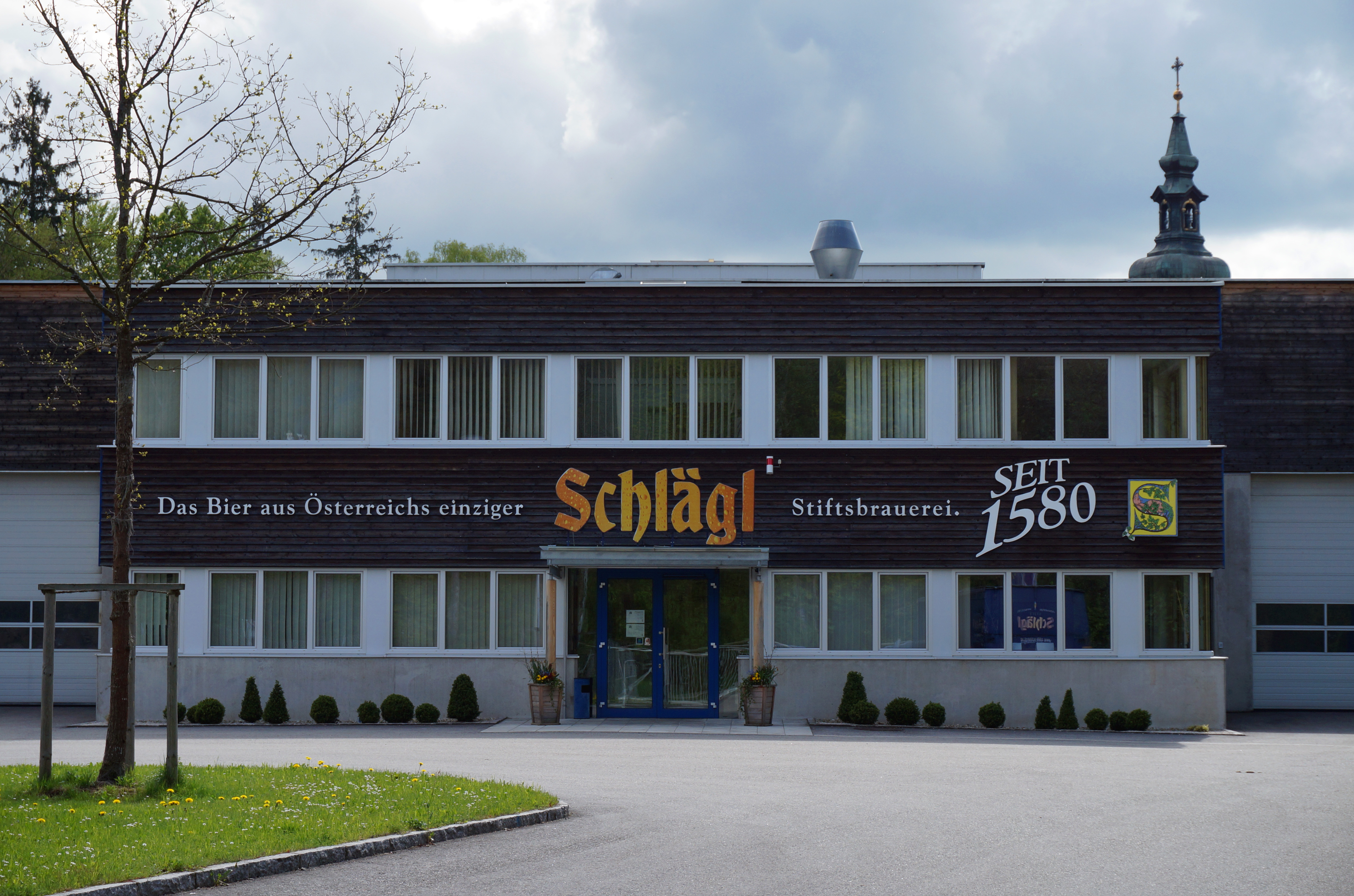 The Brewery of Stift Schlägl viewed from north.